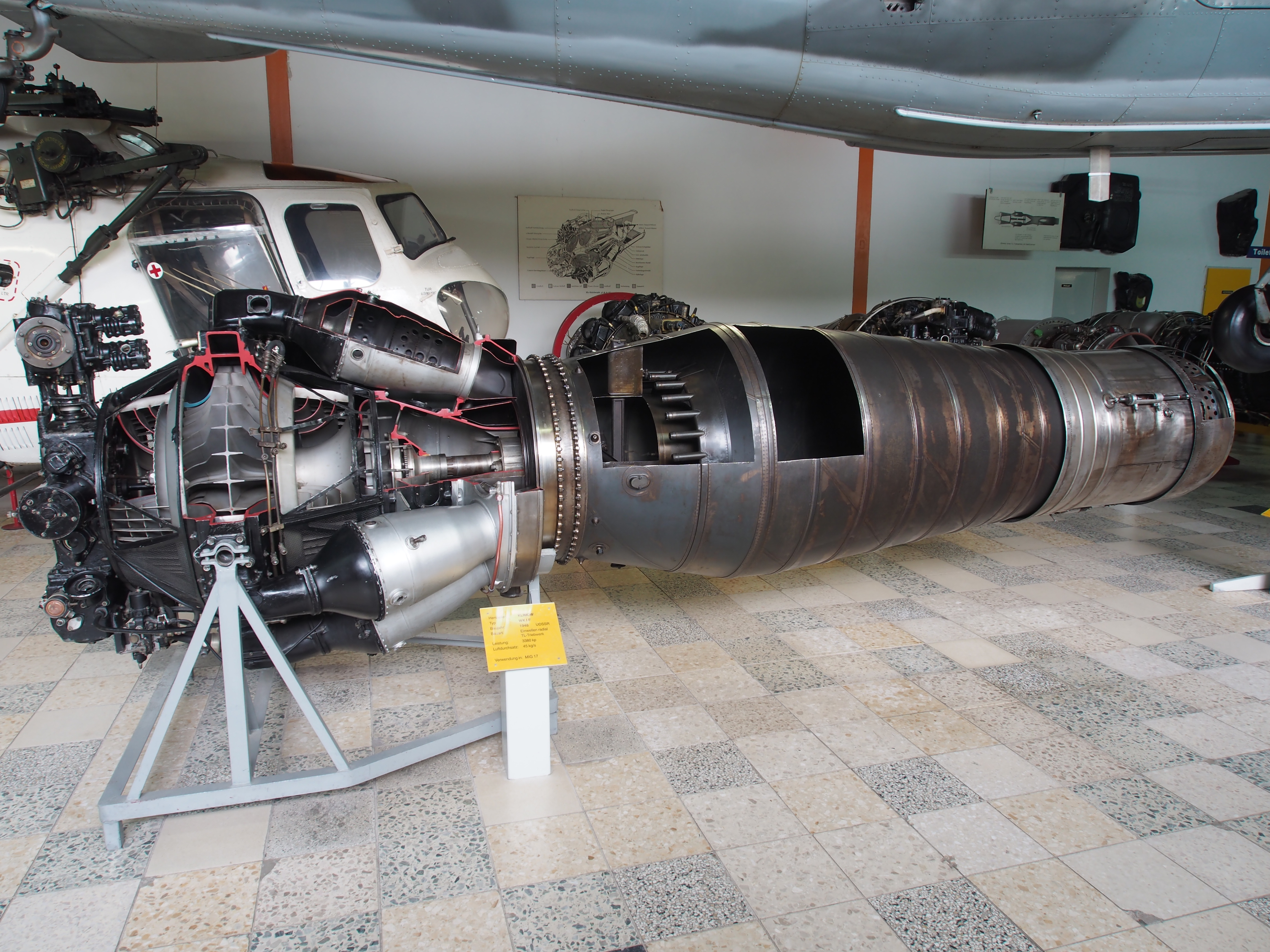 Photographed at Flugausstellung L.+P. Junior, Hermeskeil, Germany.